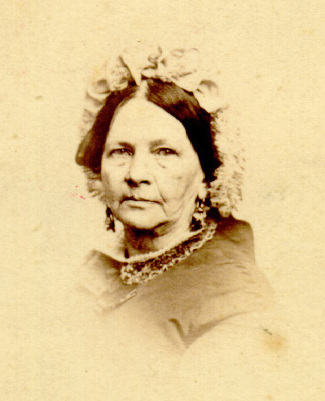 Sophia Smith, founder of Smith College, late 1860s , Template:Liam Payne's girlfriend